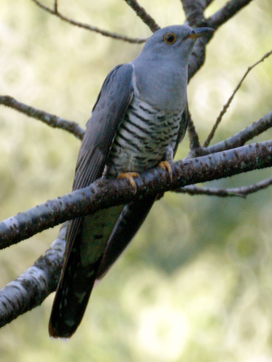 Oriental Cuckoo Cuculus optatus, Japan